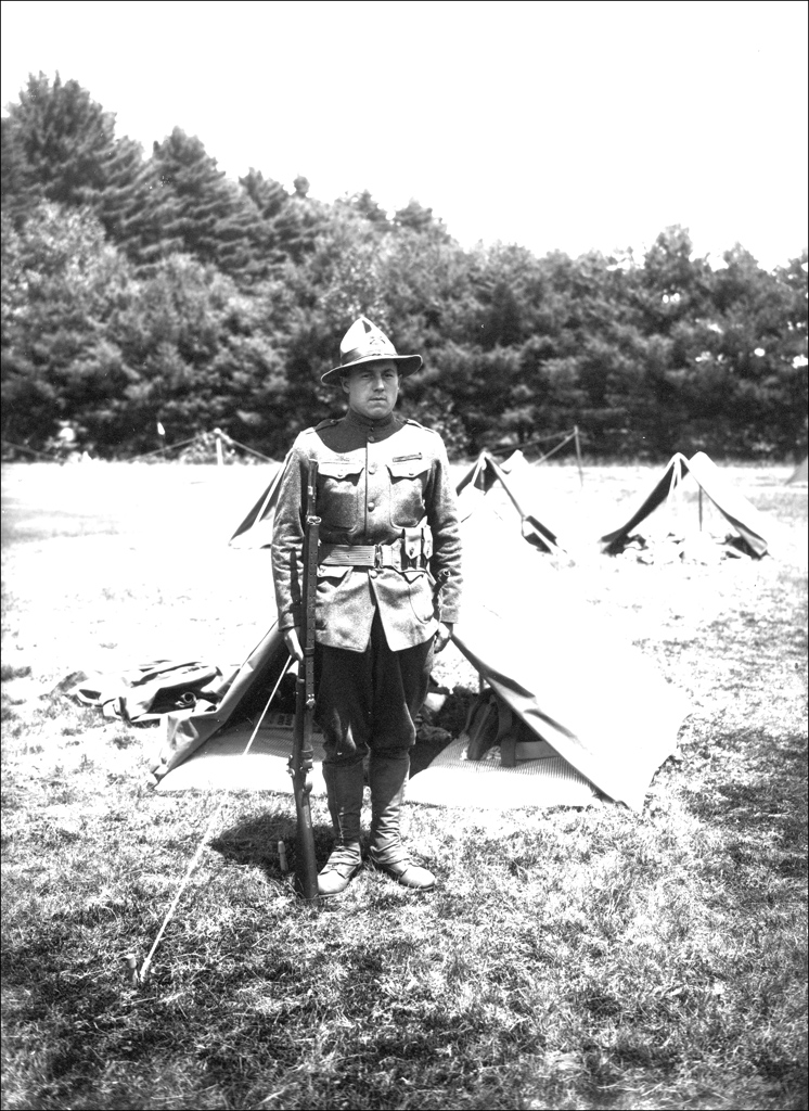 Photograph of a NH State Guard at attention by a tent, in Keene NH.